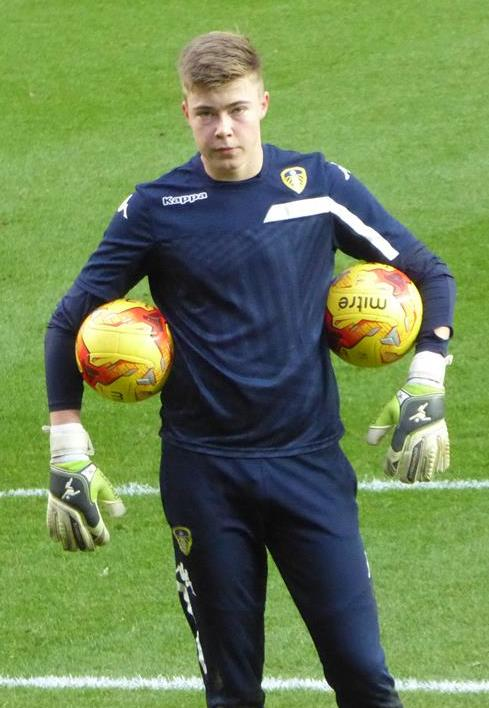 English goalkeeper Bailey Peacock-Farrell